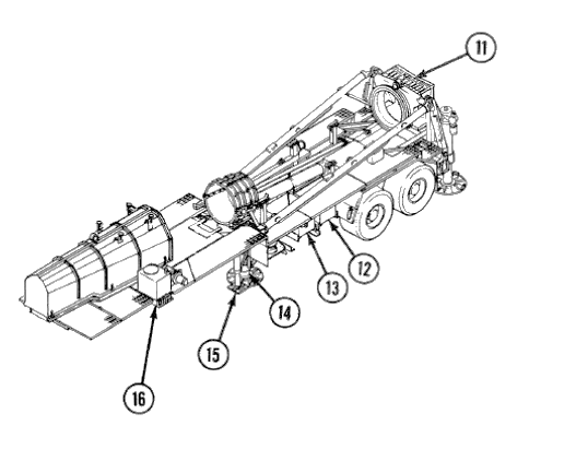 Pershing II M1003 launcher roadside view